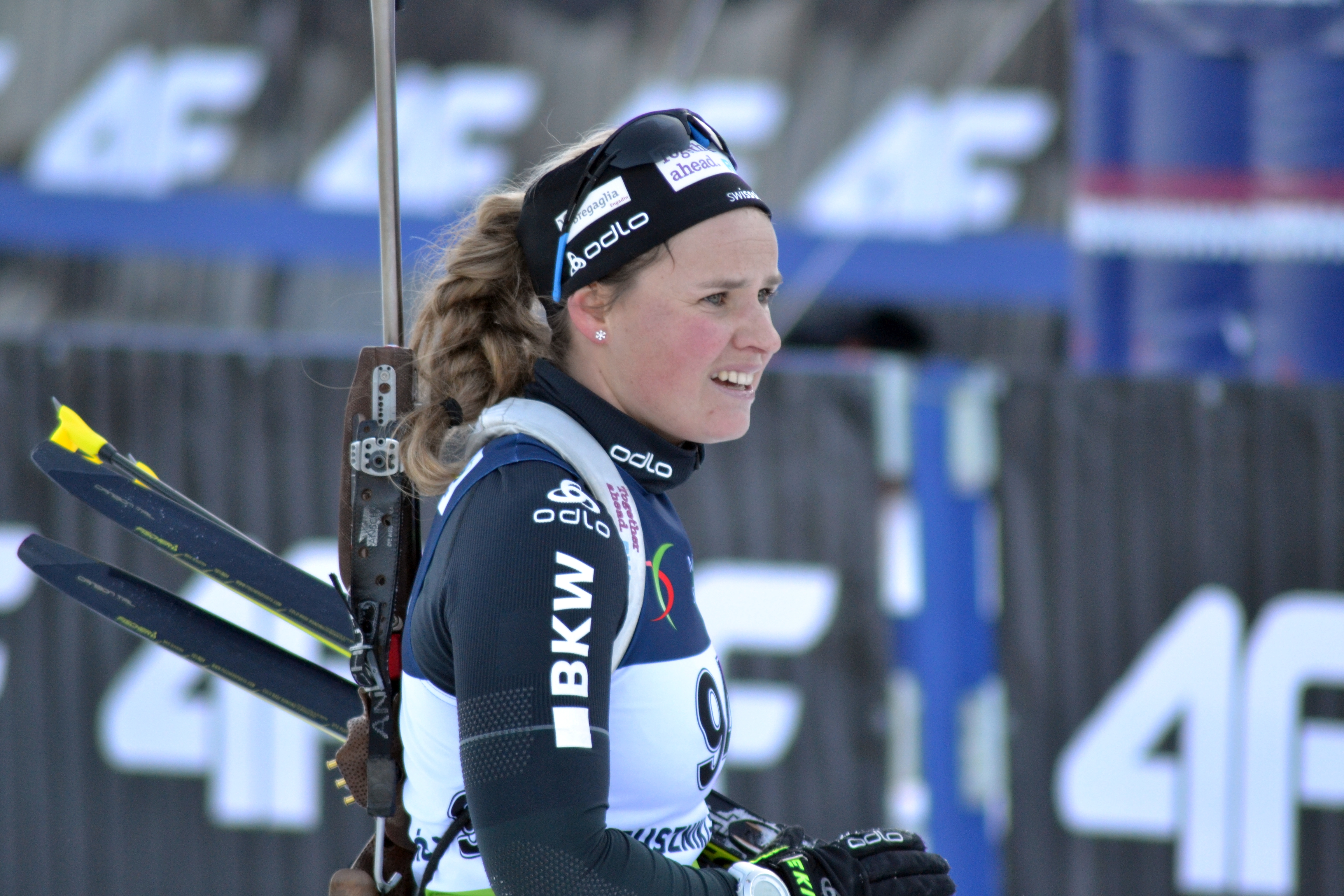 Open European Championships Biathlon 2017, Sprint Women's race, held on January 27th.